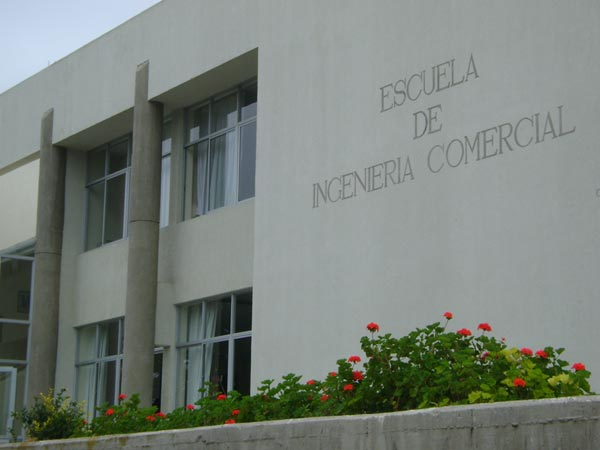 Universidad Católica del Norte in Chile.